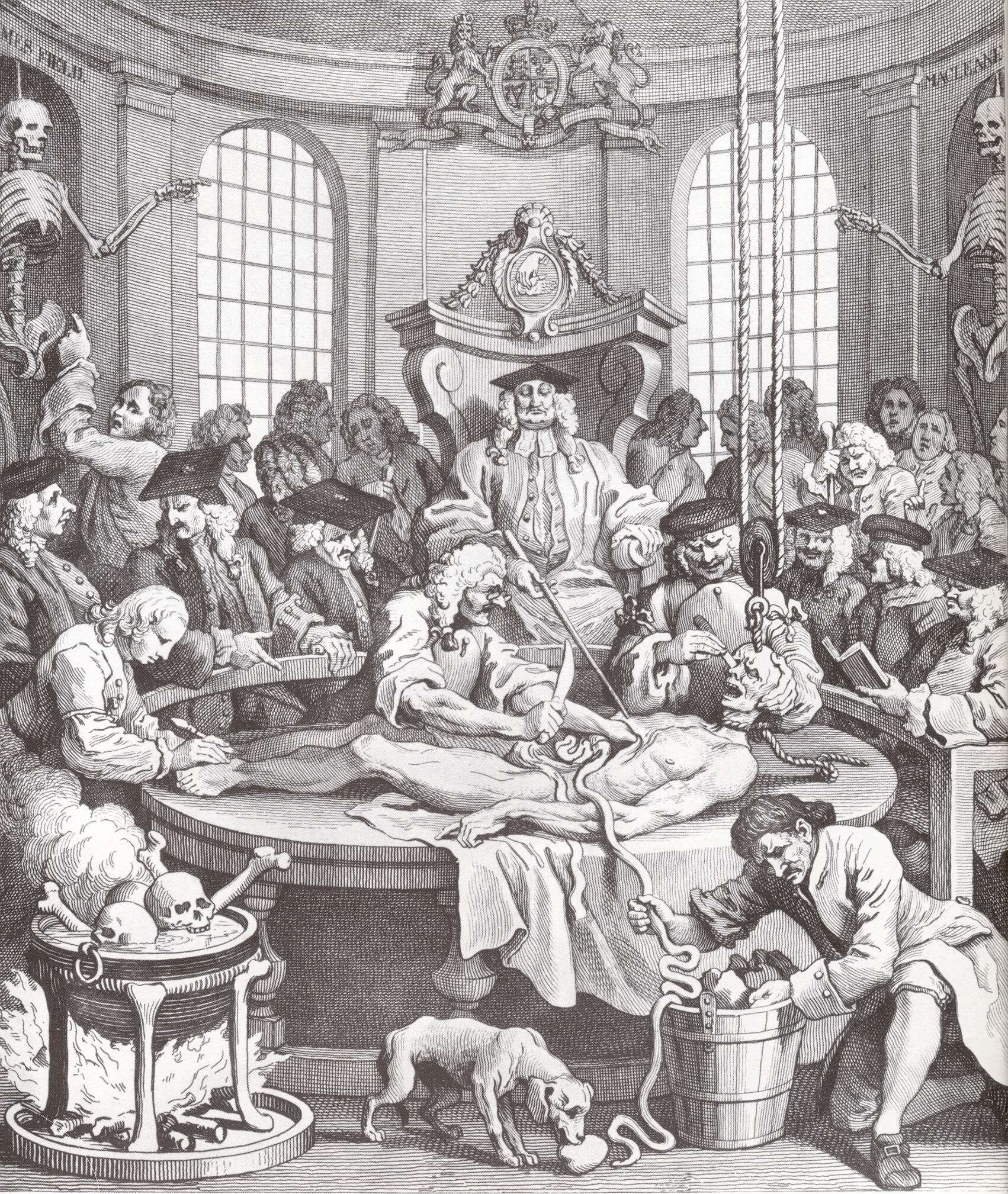 Four stages of cruelty - The reward of cruelty, fourth and last of series of engravings. Tom Nero's body is dissected after he has been hanged